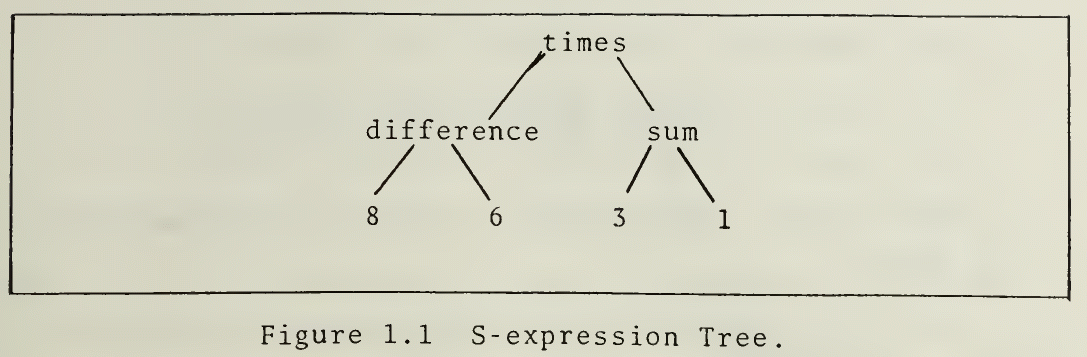 Illustration from the Master's Thesis Pdf file.